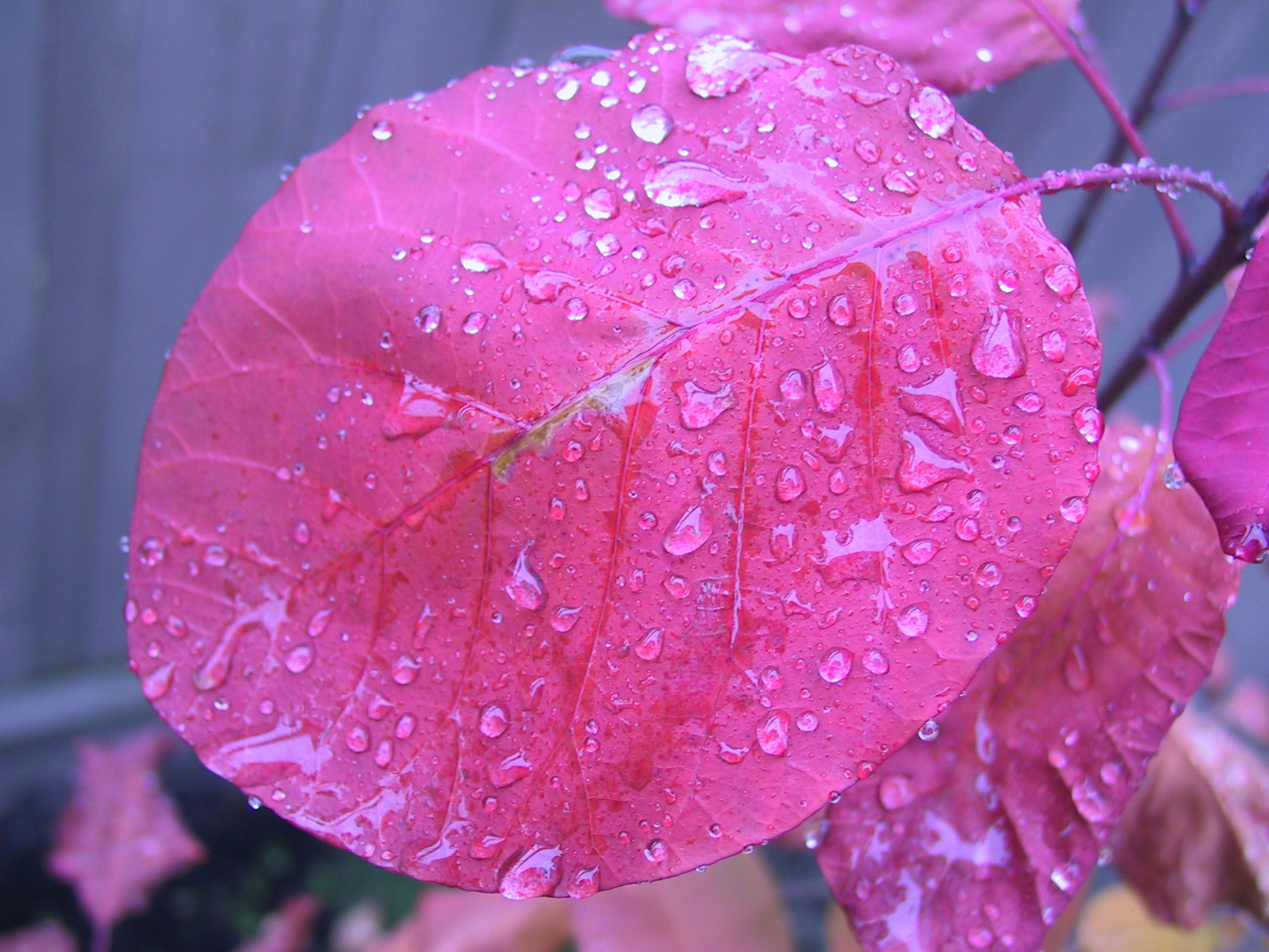 Rain drops on a smoke tree leaf.Rain on a smoke tree leaf